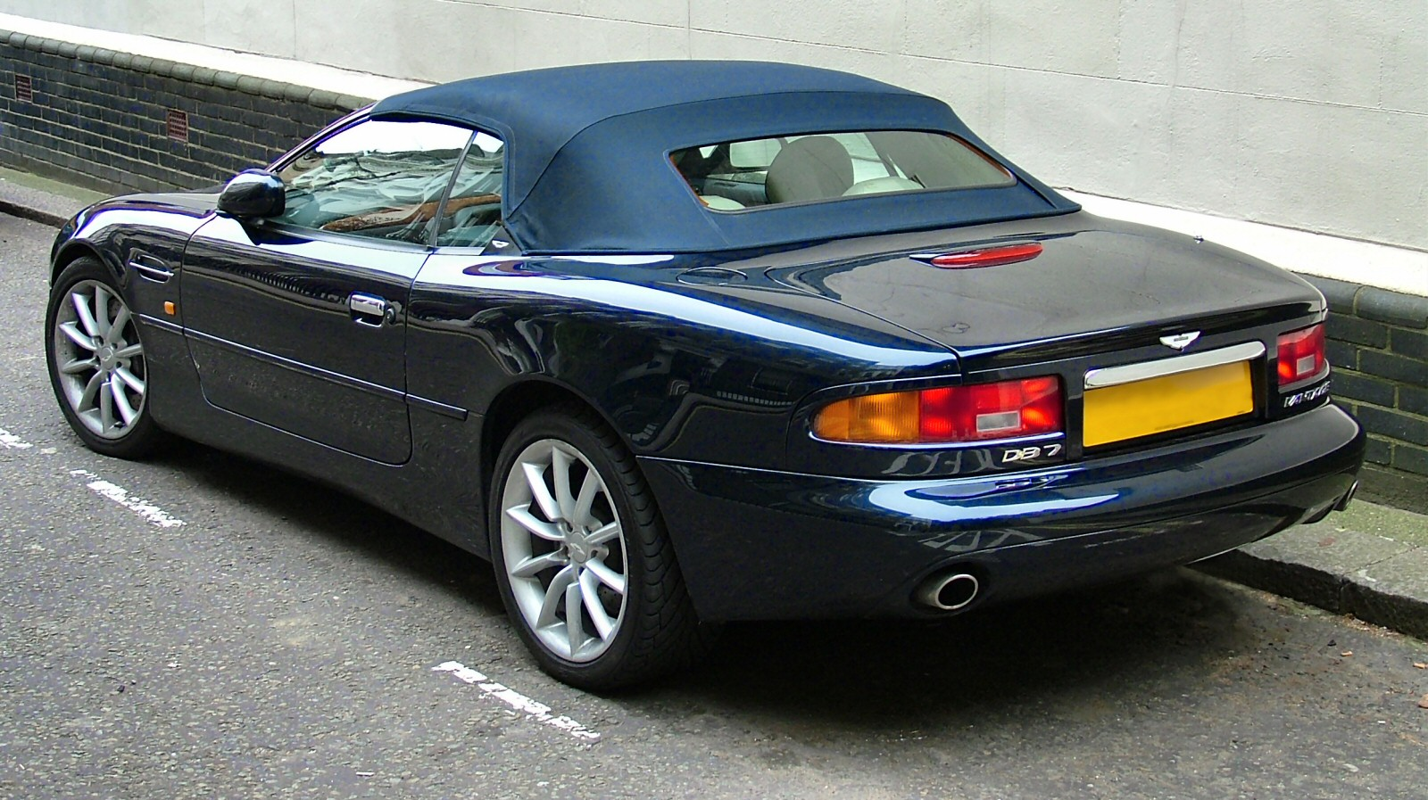 Aston Martin DB7 V12 Vantage Volante Date: 22nd June 2004 17:10 9 ISO: 200 Photograph: ed g2s • talk